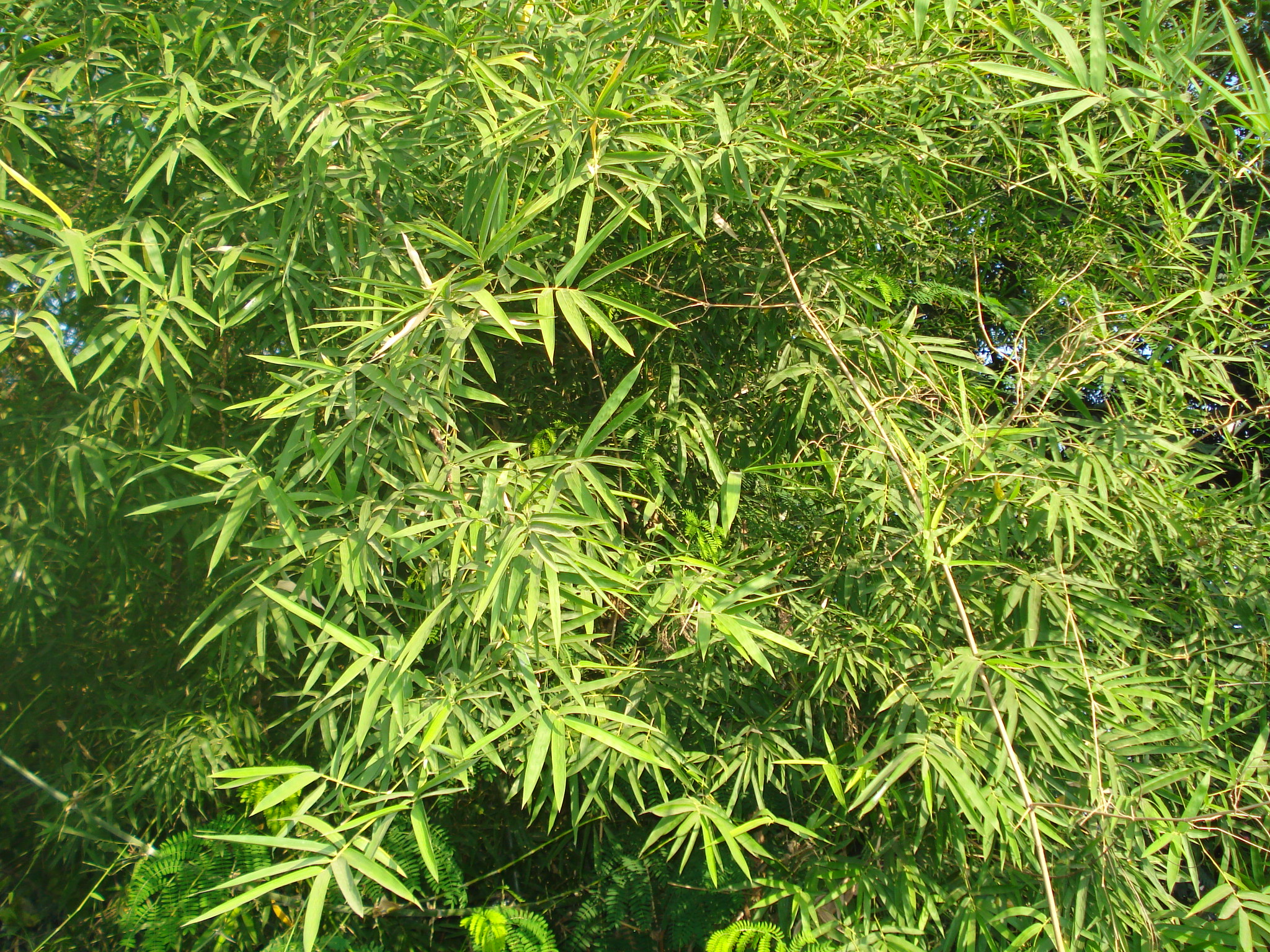 Leaves of Dendrocalamus strictus at Nandan Kanan Park Bhopal